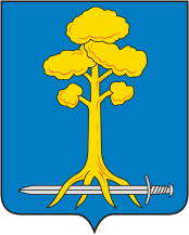 Sertolovo (Leningrad oblast), coat of arms